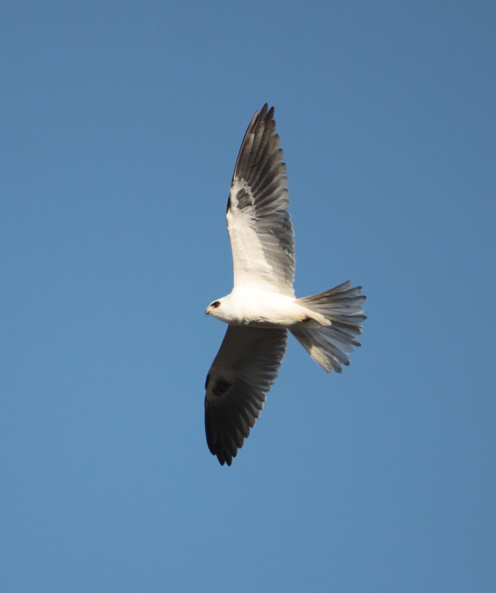 Elanus leucurus, Tijuana River National Estuarine Research Reserve, California.